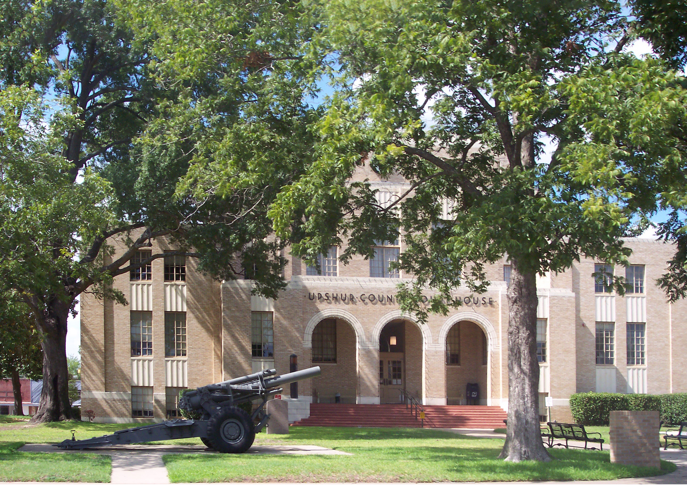 Upsher County Courthouse in Gilmer, Texas, United States Photo By: Jeffrey A. Lang JR (Jul. 30 2006)